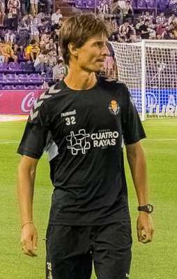 Real Valladolid - F. C. Barcelona, 2nd fixture of the 2018-19 La Liga, August 25, 2018.